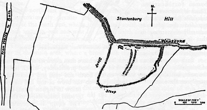 Map of earthworks at Stantonbury Camp, Somerset, England.